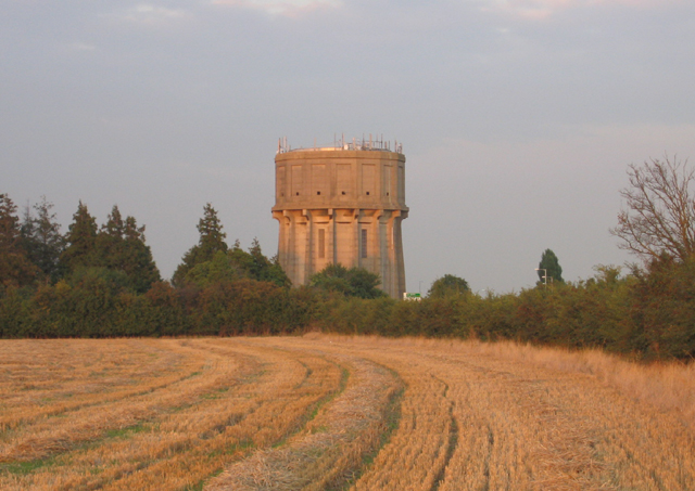 Langford Water Tower, Beds. The water tower is an imposing landmark on Topler's Hill beside the A1 Ermine Street, south of Biggleswade, Beds; view from the west.